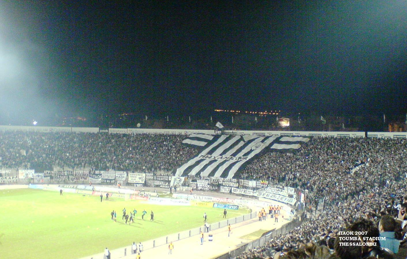 this picture was taken by the user during a football match